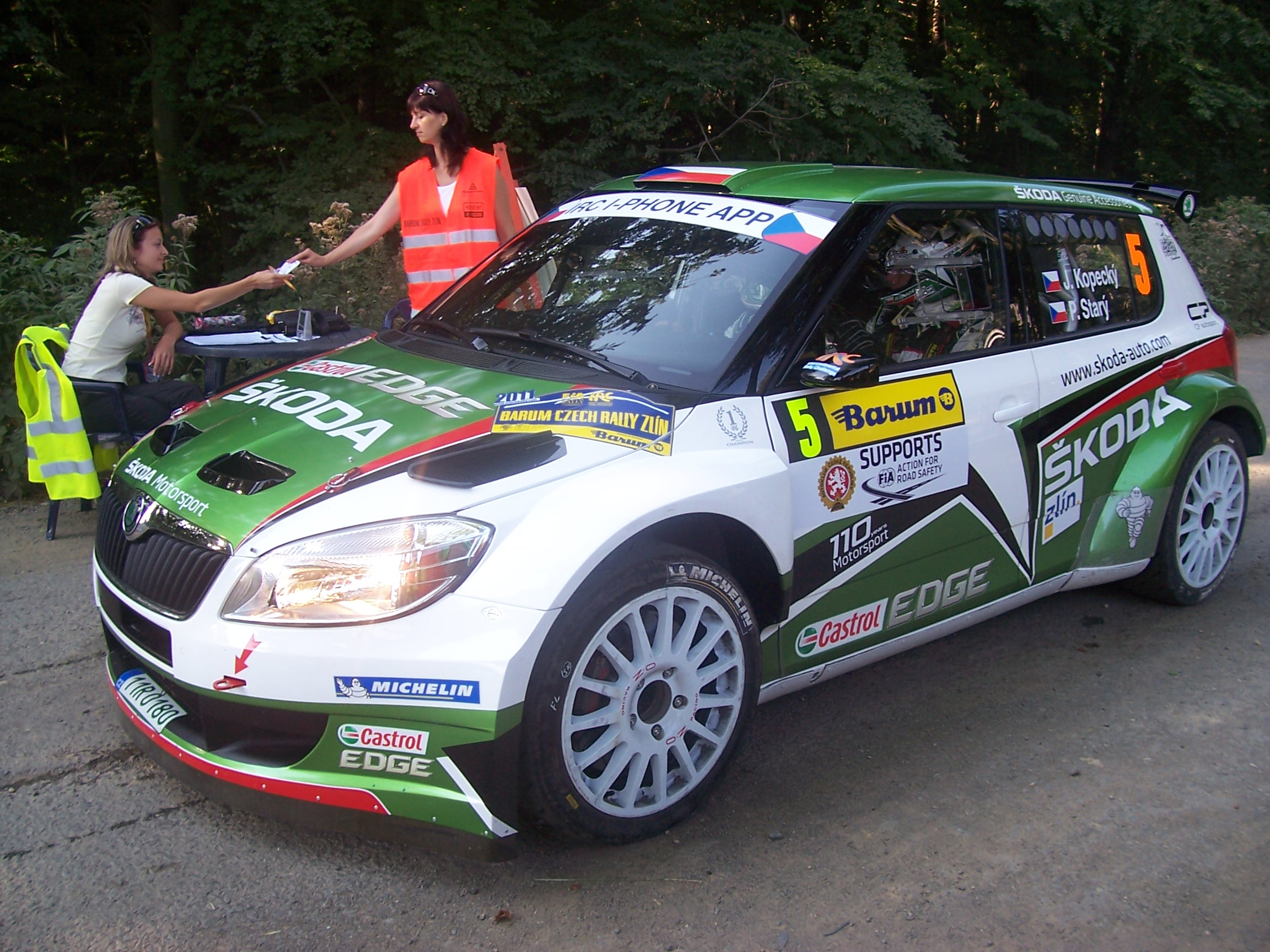 Jan Kopecky